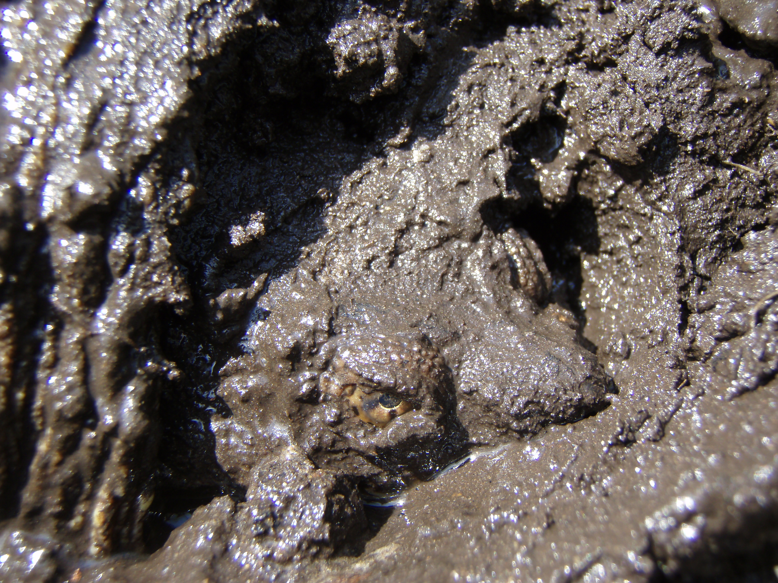 Adult Snapping turtle, Chelydra serpentina, emerging from hibernation.